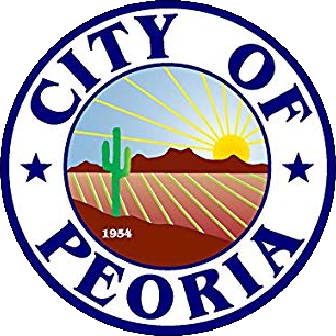 Seal of Peoria, Arizona; adopted in December 1954.